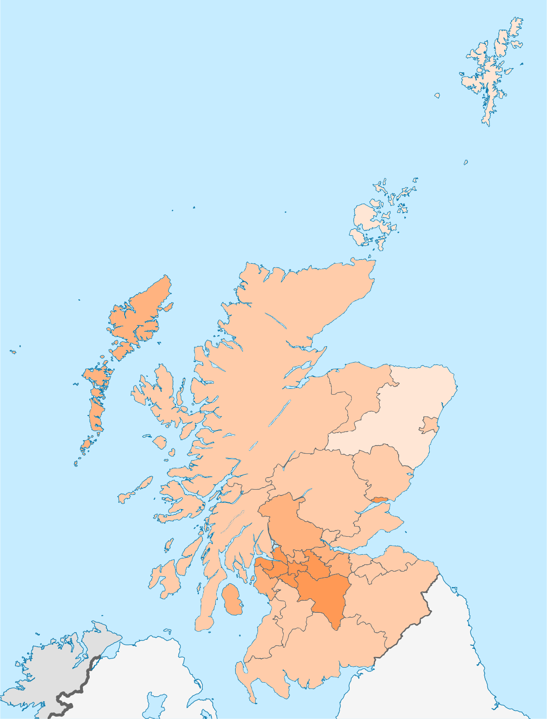 % Roman Catholic by council area in Scotland based off of the 2011 UK census results. 18% or more 12-18% 6-12% Less than 6%